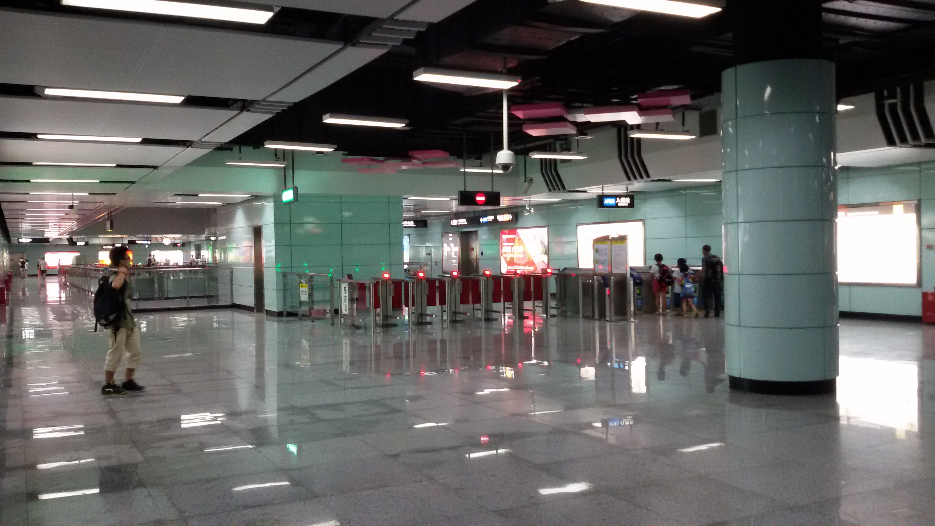 Concourse for Canton Tower Station in APM Line, Guangzhou Metro 粵語: 廣州塔站嘅APM綫站廳